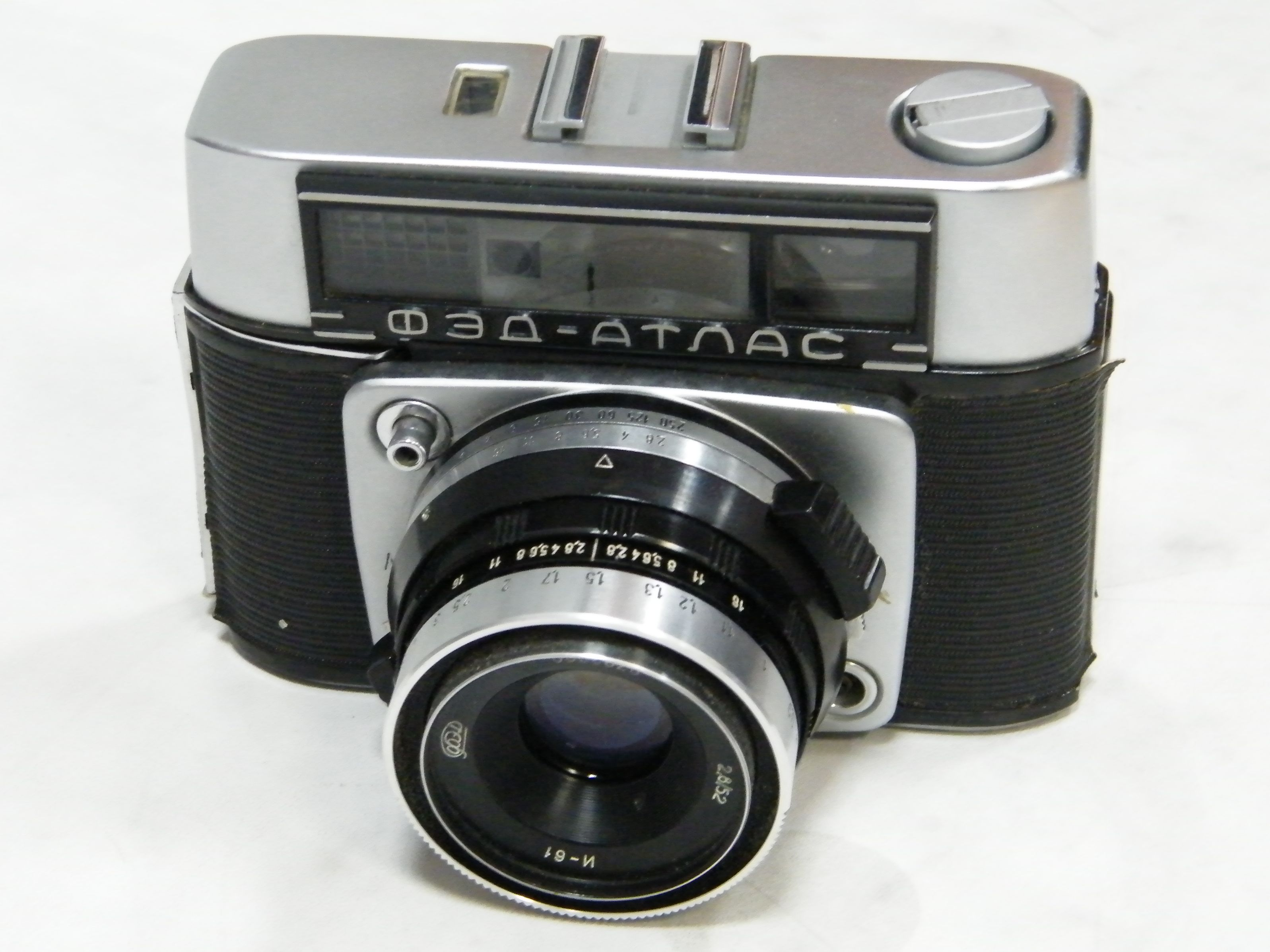 FED-ATLAS from Evgeniy Okalov collection